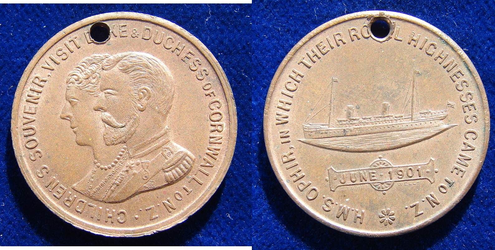 D.= 27 mm Copper. Duke and Duchess of Cornwall and York, later Prince and Princess of Wales, later King George V, 1910 - 1936 and Queen Mary. 2 busts left, surrounding: "* CHILDREN S SOUVENIR, VISIT DUKE & DUCHESS OF CORNWALL TO N.Z. *" (no artist's initials under the bust of the Duke)/ The ship Ophir sailing l. , no smoke out of chimneys. "G. T. WHITE WELLN" under "JUNE 1901". surrounding: "* H.M.S. OPHIR, IN WHICH THEIR ROYAL HIGHNESSES CAME TO N.Z. *" Morel 1901/9 var. Medallist: G. (George) T. (Thomas) White, Jeweller in Christchurch and Wellington, 1846 - 1925 Condition: EXTREMELY FINE, and pierced.